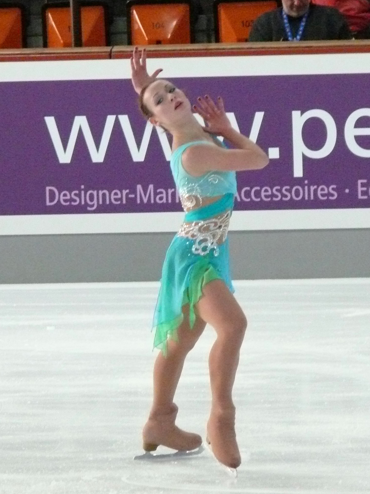 Alexandra Ievleva (RUS) at her free program at the Nebelhorntrophy 2008 in Oberstdorf, Germany